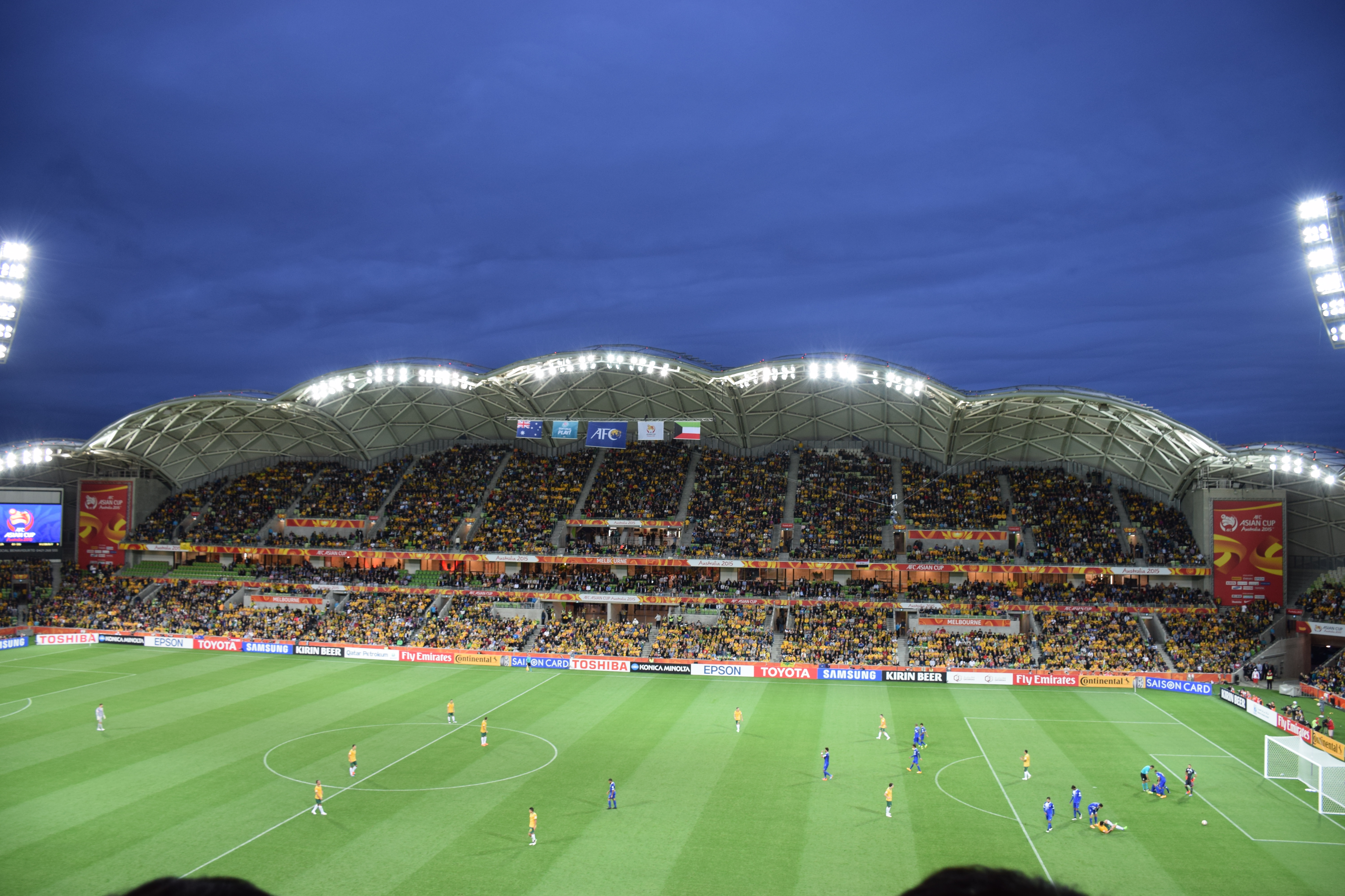 2015 AFC Asian Cup opening match Australia Kuwait, 9 January 2015